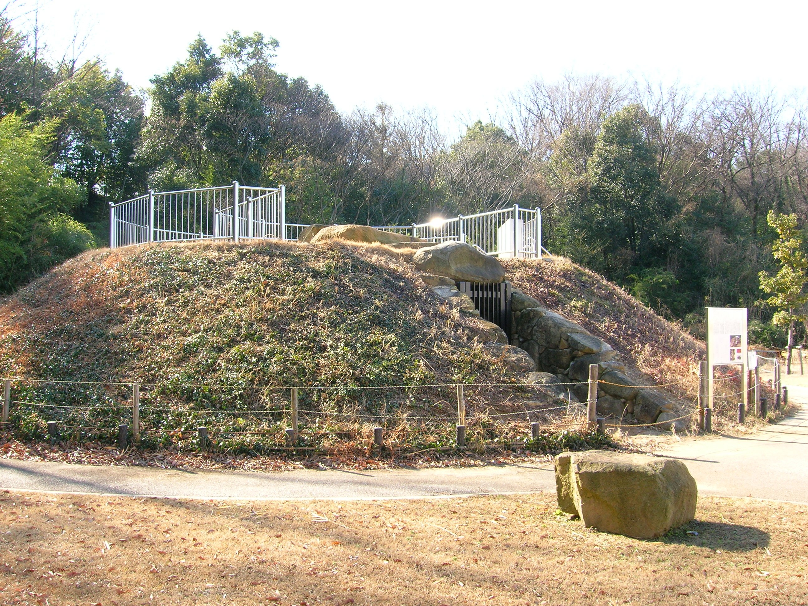 Iwaya kofun. Loc: Komaki city, Aichi Prefecture, Japan. 岩屋古墳、再建された墳丘。 撮影場所 愛知県小牧市大字岩崎